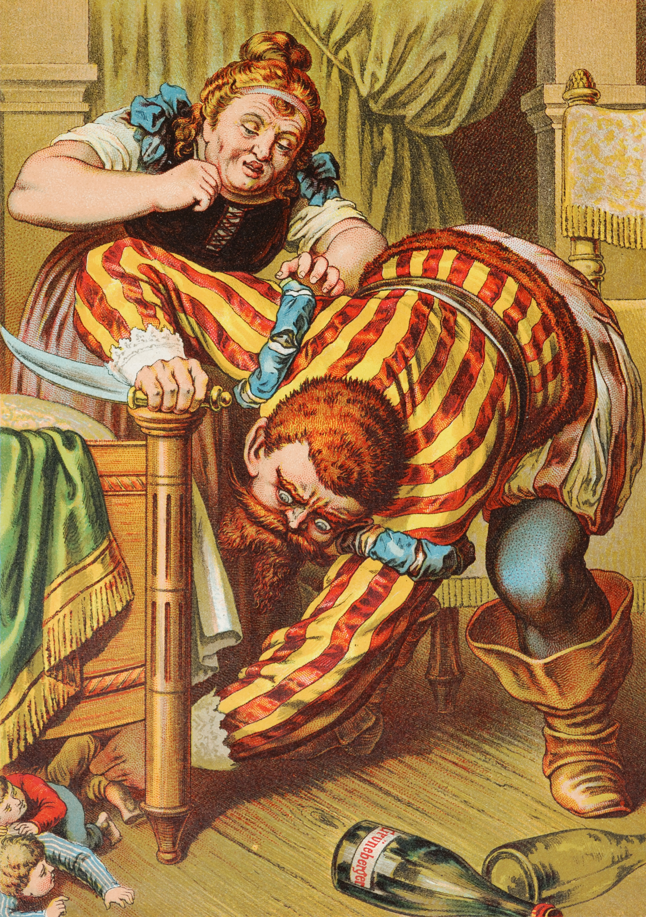 Hop o' My Thumb, illustration by Heinrich Leutemann or Carl Offterdinger